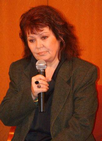 This image has been copied from the source with the permision of webmaster (and with the consent of the director of the service). The permission was granted to Stan Zurek (Zureks) via email from Mirosław Domański Iga Cembrzyńska